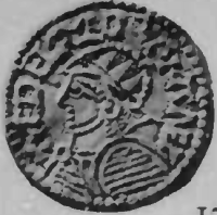 A penny from the reign of King Edward the Martyr, called the "Helmet type" from the style of the helmeted, mustachioed and armoured figure depicted. These are generally supposed to date from the first decade of the 11th century.